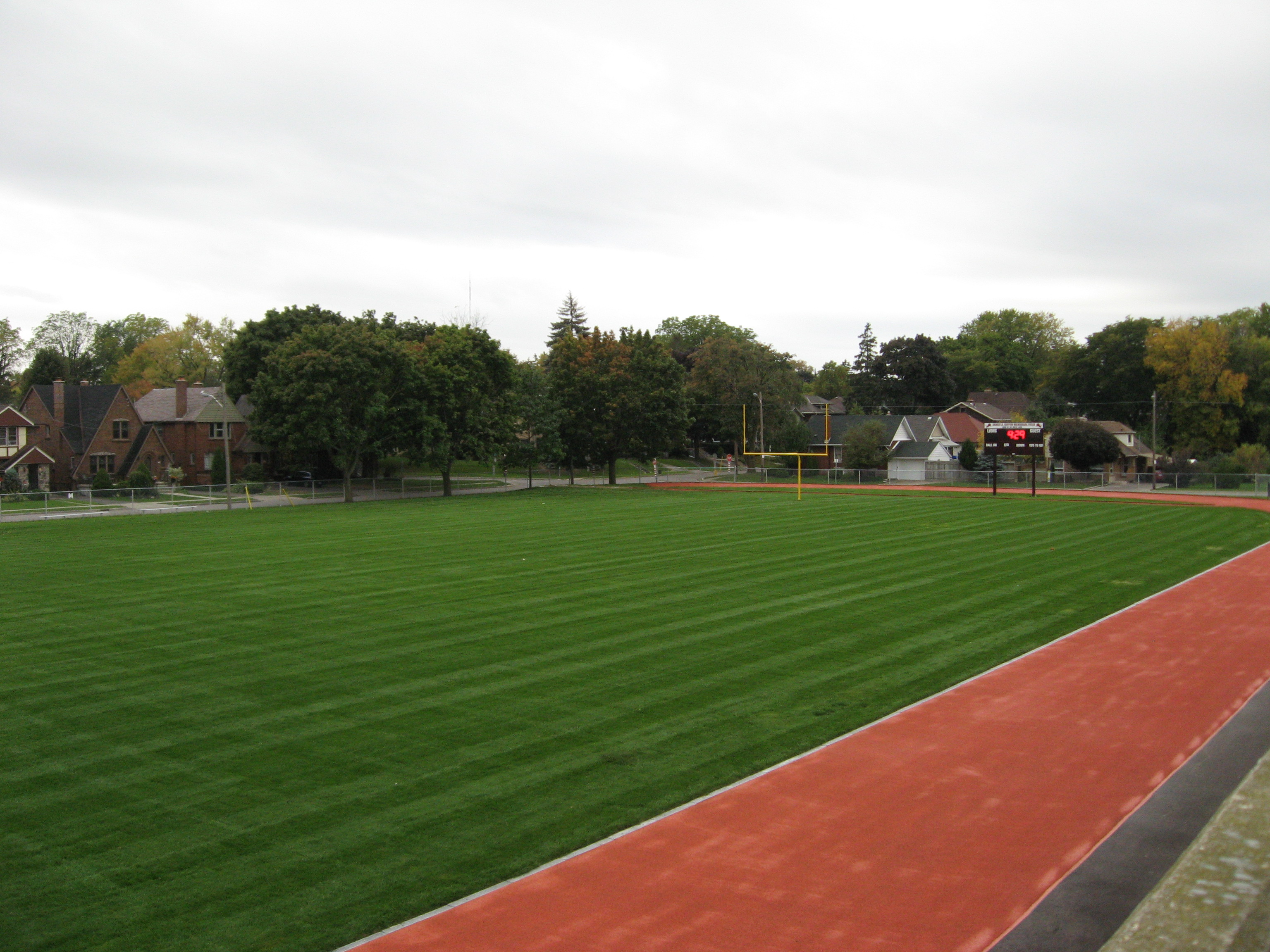 The newly finished field for London South Secondary School, as seen from the parking ramp, looking South-West.